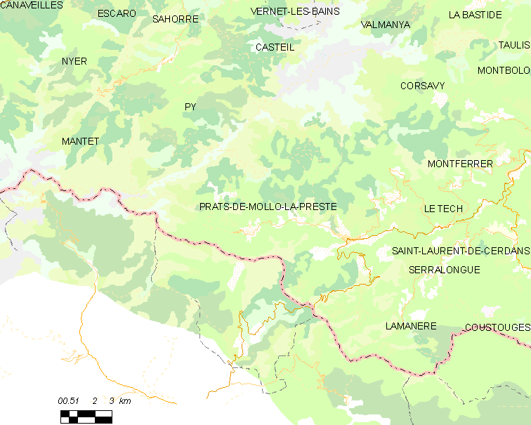 Map of French municipality